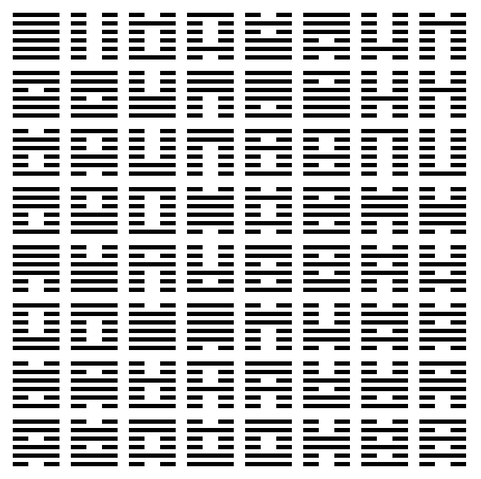 Image showing the sixty-four hexagrams from the King Wen sequence of the I Ching. The King Wen sequence is an arrangement of the sixty-four divination figures in the I Ching or Book of Changes. They are called hexagrams in English because each figure is composed of six broken or unbroken lines, that represent Yin and yang respectively. The King Wen sequence is also known as the received or classical sequence because it is the oldest surviving arrangement of the hexagrams. Its true age and authorship are unknown.